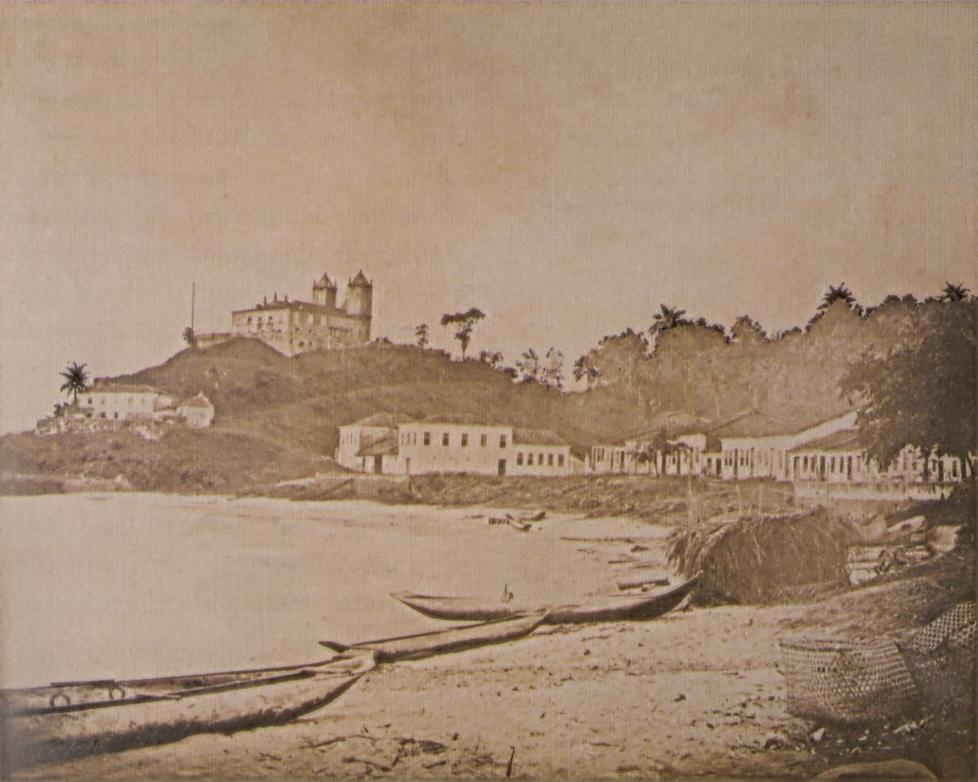 Fortof São Diogo and church of Santo Antonio in the city of Salvador in the province of Bahia, 1858.